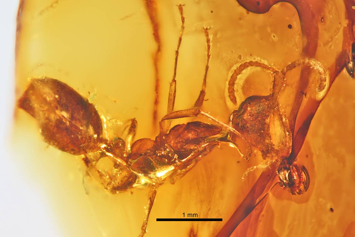 Closeup of the profile of Haidoterminus cippus holotype specimen UASM332546